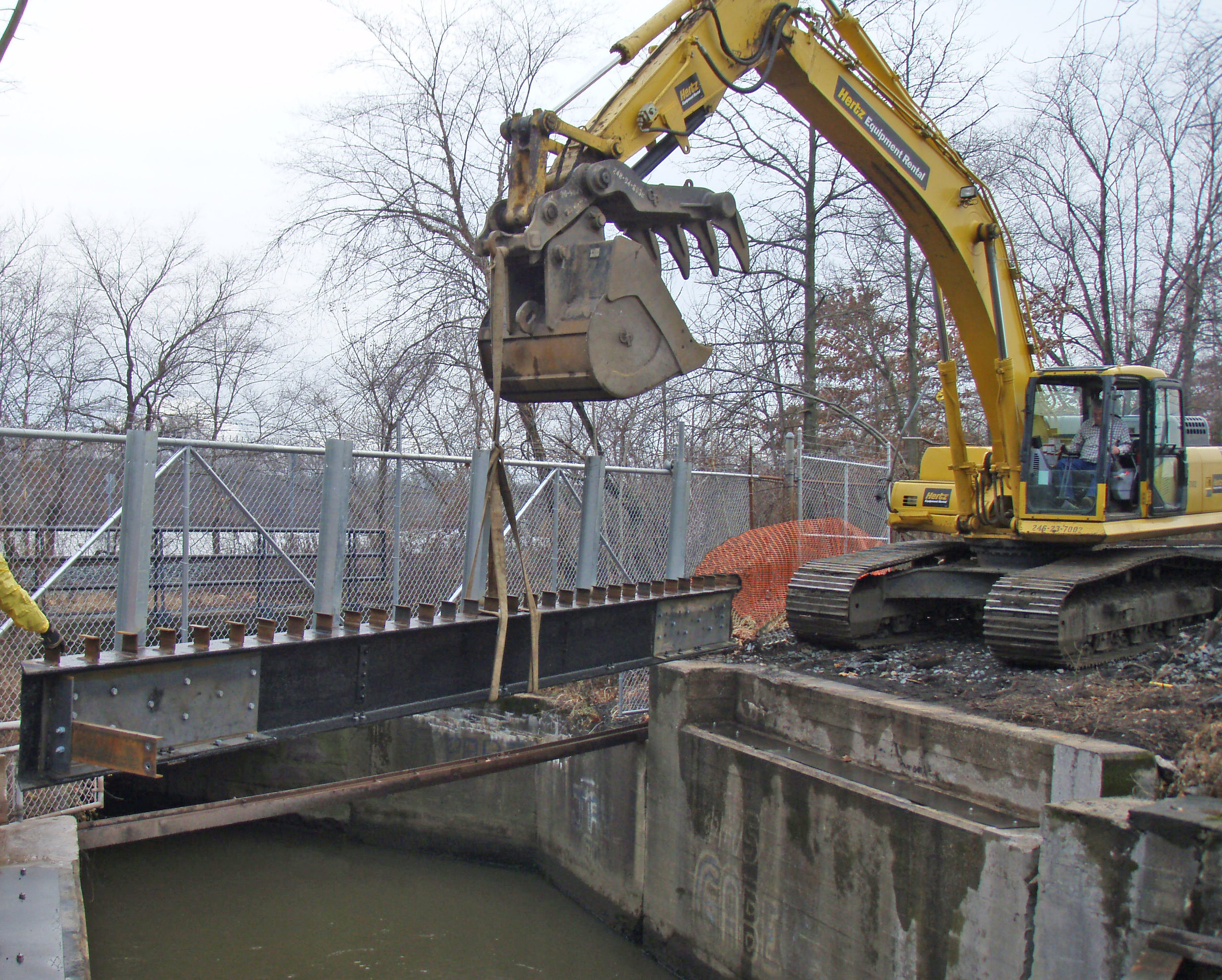 New Roebling Bridge being installed.